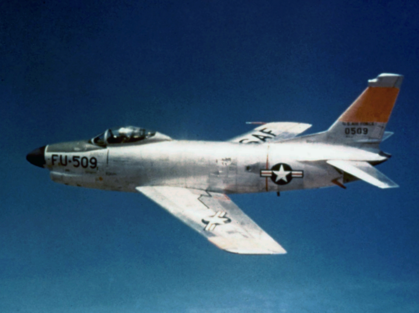 A U.S. Air Force North American F-86D-5-NA Sabre (s/n 50-509) in flight. This aircraft was later used as a JF-86D chase plane at Edwards Air Force Base, California (USA).